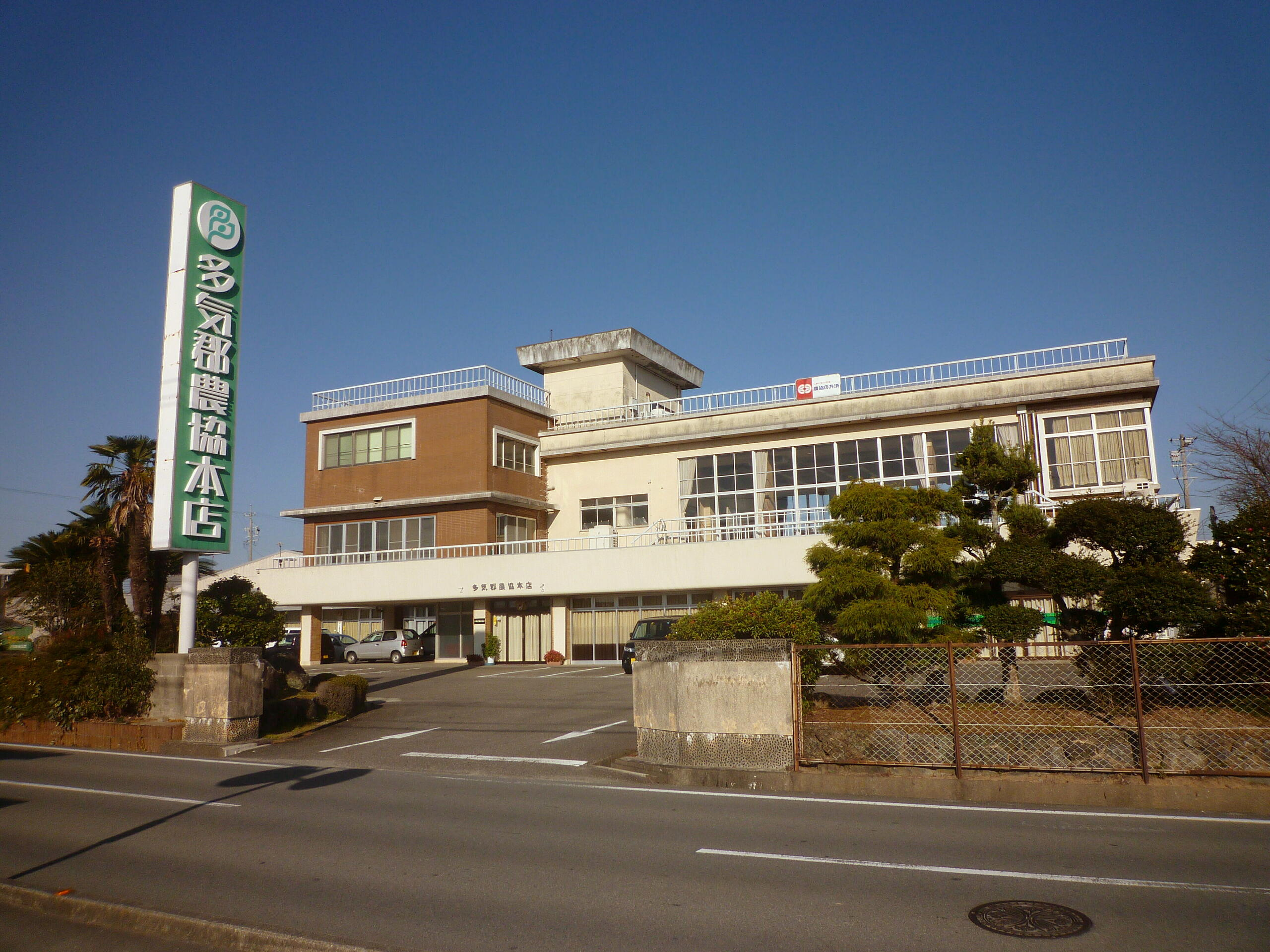 The "JA-Takigun Head Office"" in Umanoue, Meiwa town, Taki District, Mie prefecture, Japan.